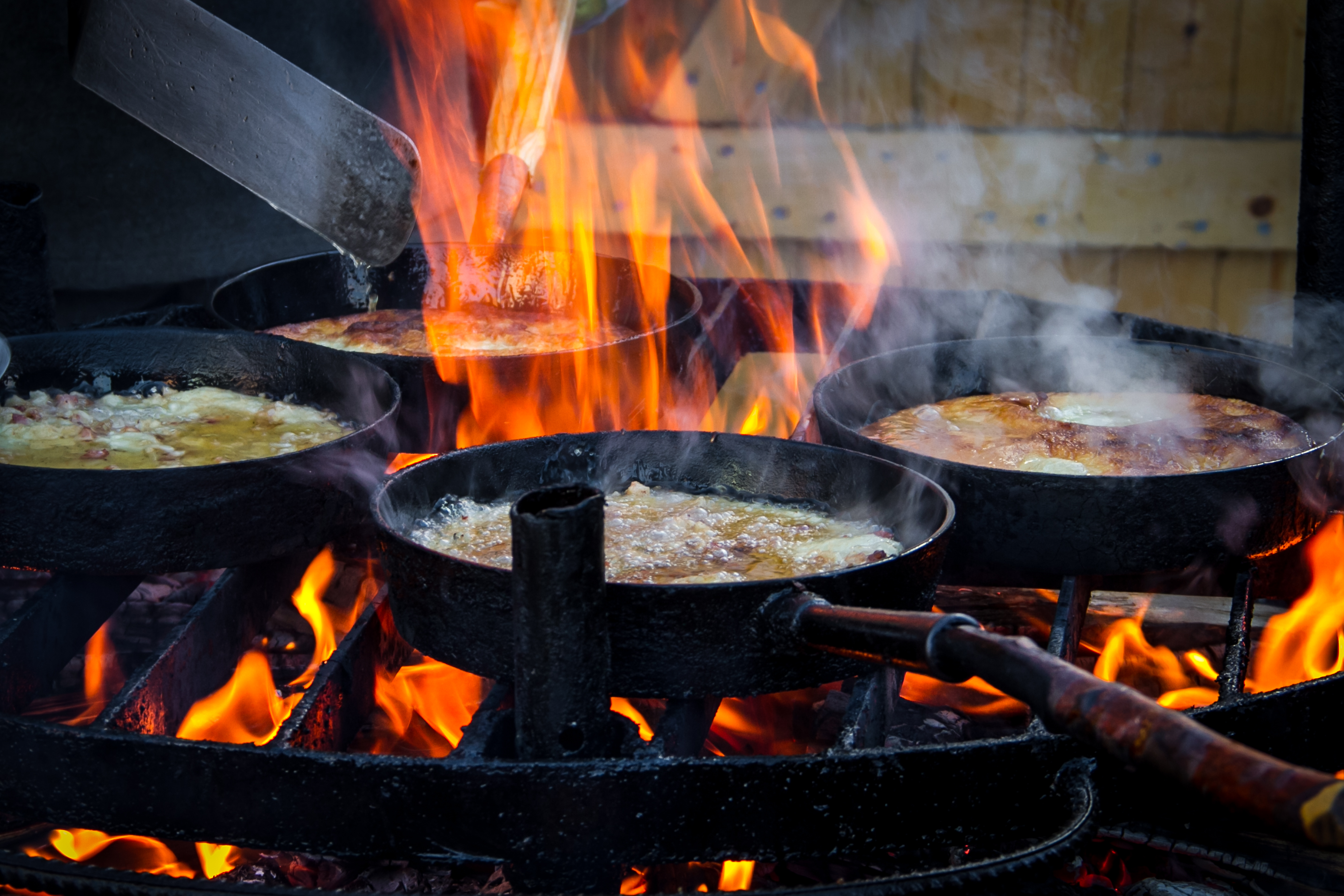 Cooking of traditional kolbullar ("charcoal buns") at Gregoriemarknaden in Östersund, Jämtland, Sweden.